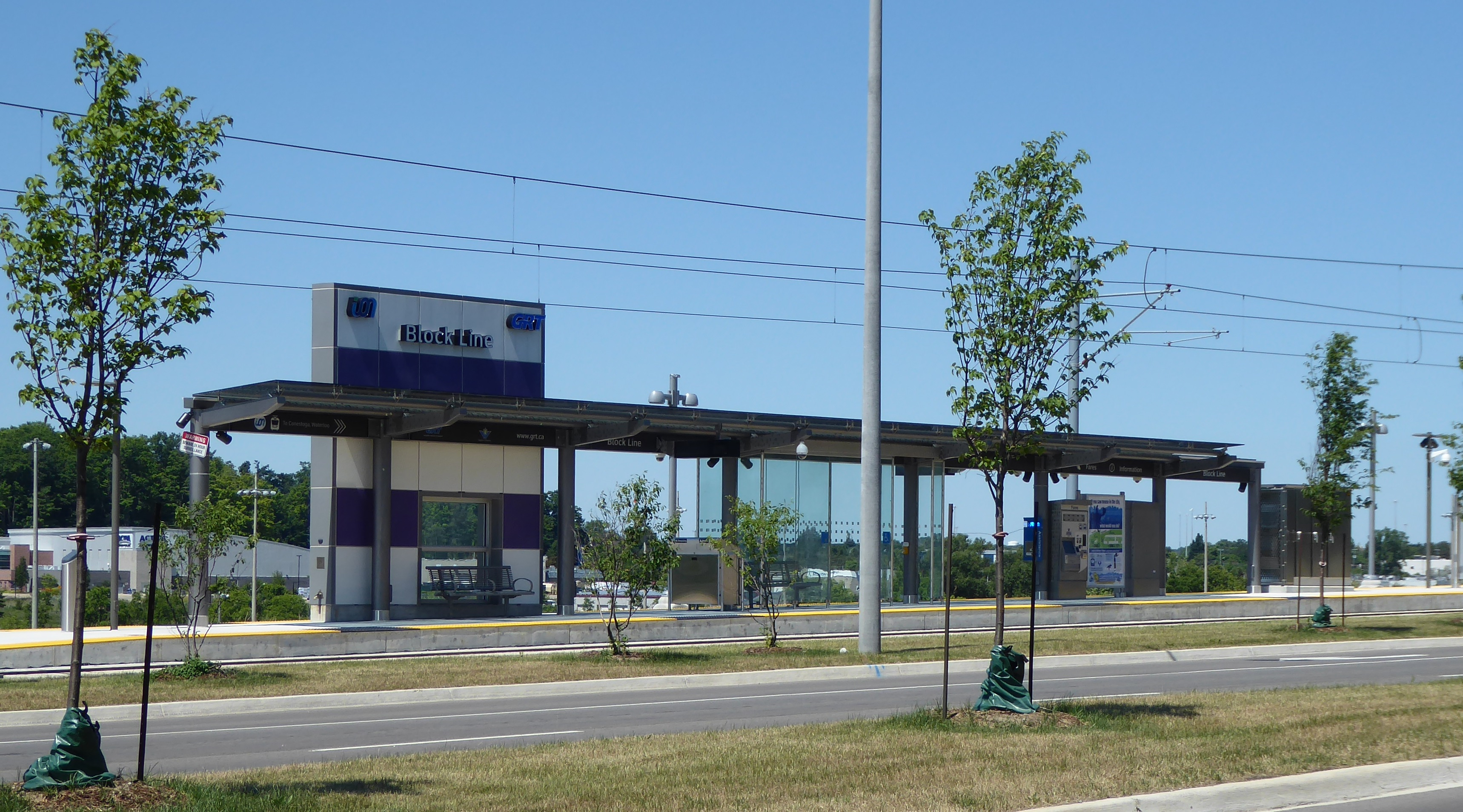 Block Line Station of the Ion rapid transit system, photographed structurally complete July 2018